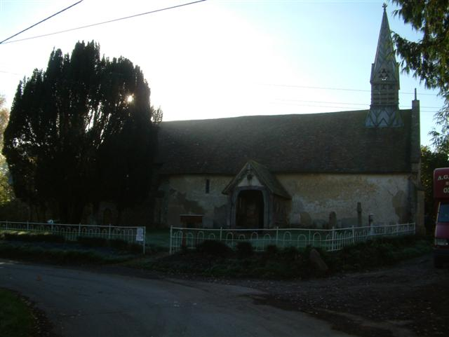 Church of England parish church of All Saints, Aston Upthorpe, Oxfordshire (formerly Berkshire)